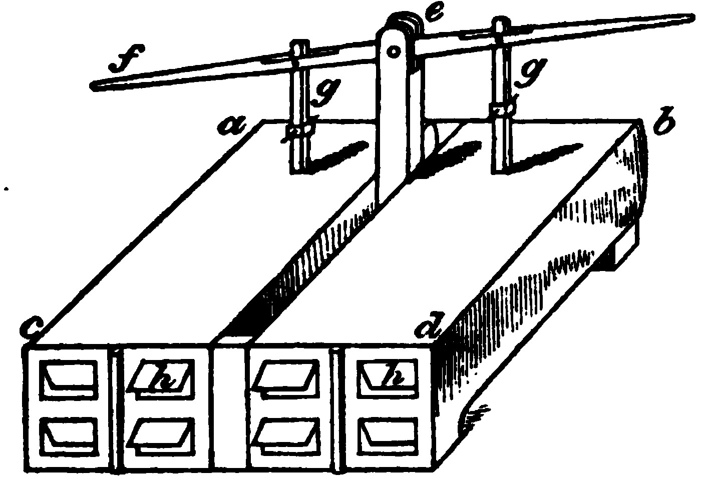 Dr Hales's ventilating bellows